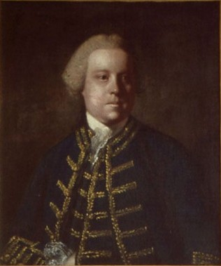 Portrait of Nathaniel Cholmley (1721–1791), English politician.